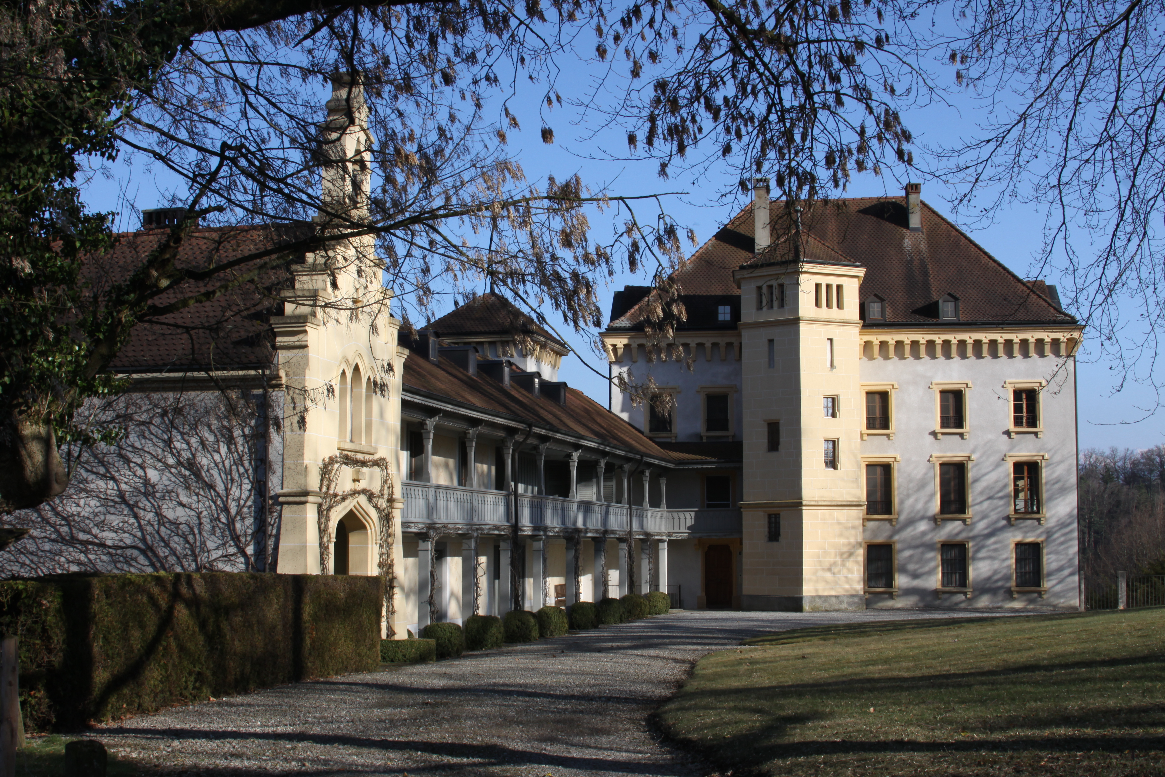 Barberêche Castle, Le Château 1, Barberêche